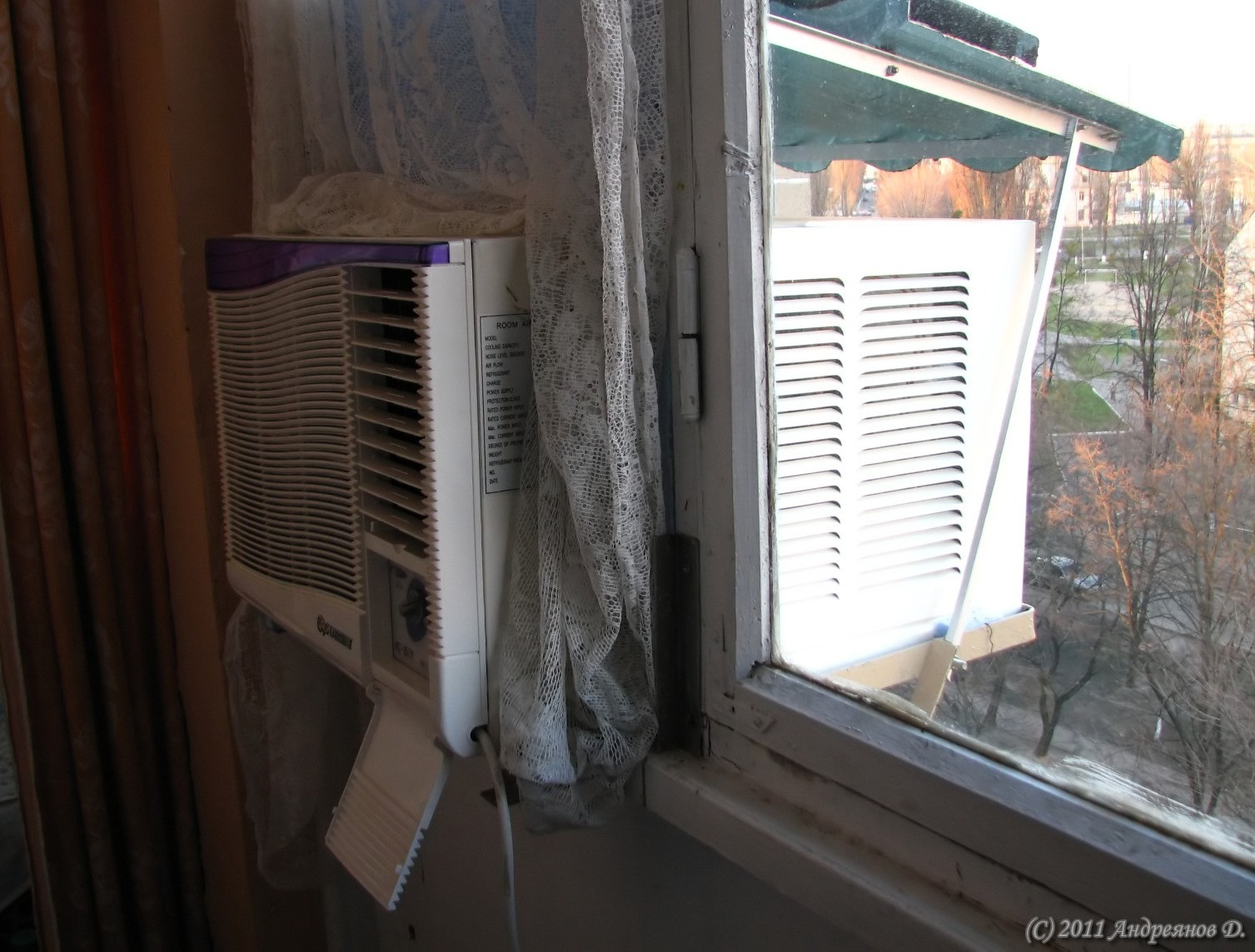 Window air conditioner